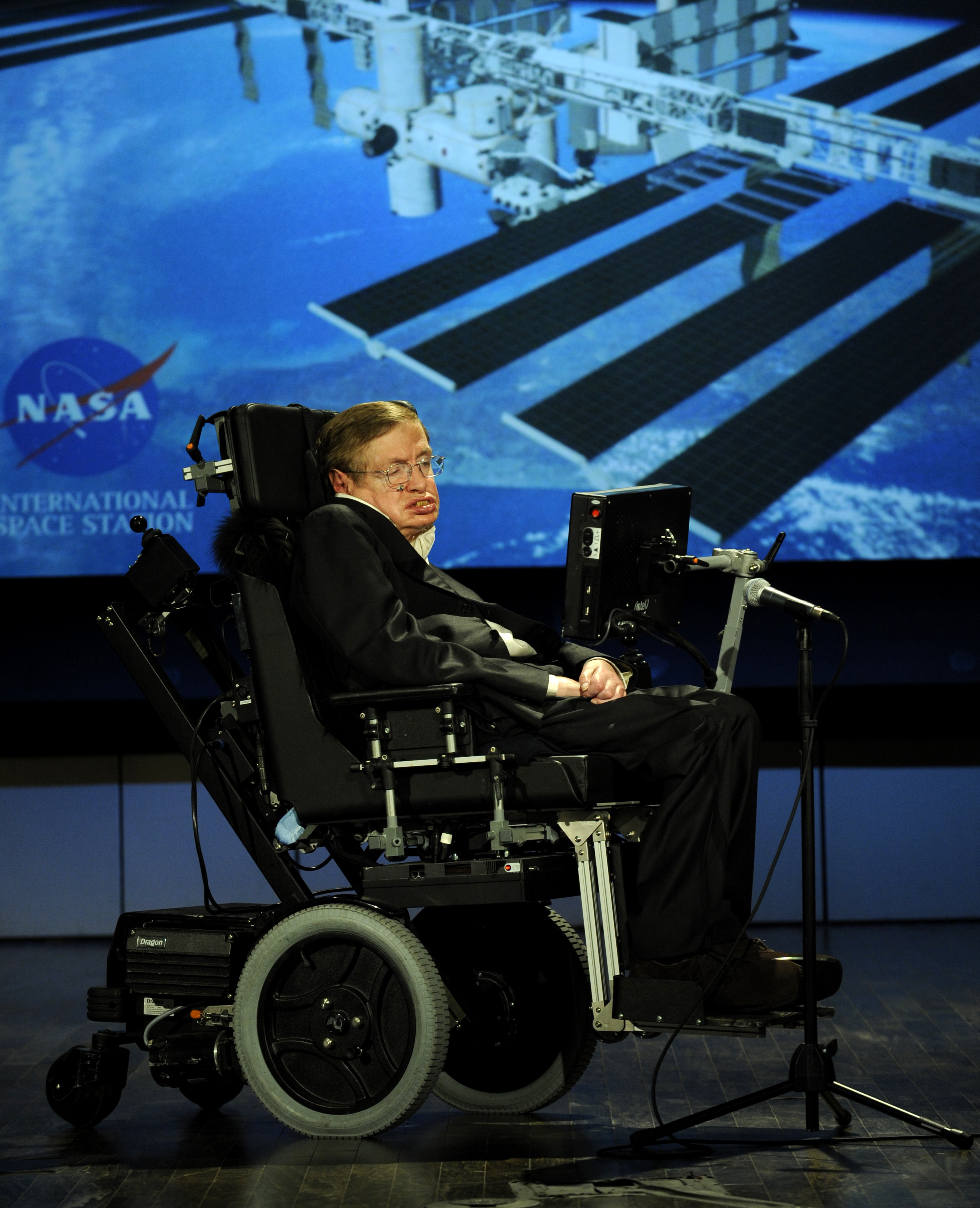 Stephen Hawking giving a lecture for NASA's 50th anniversary